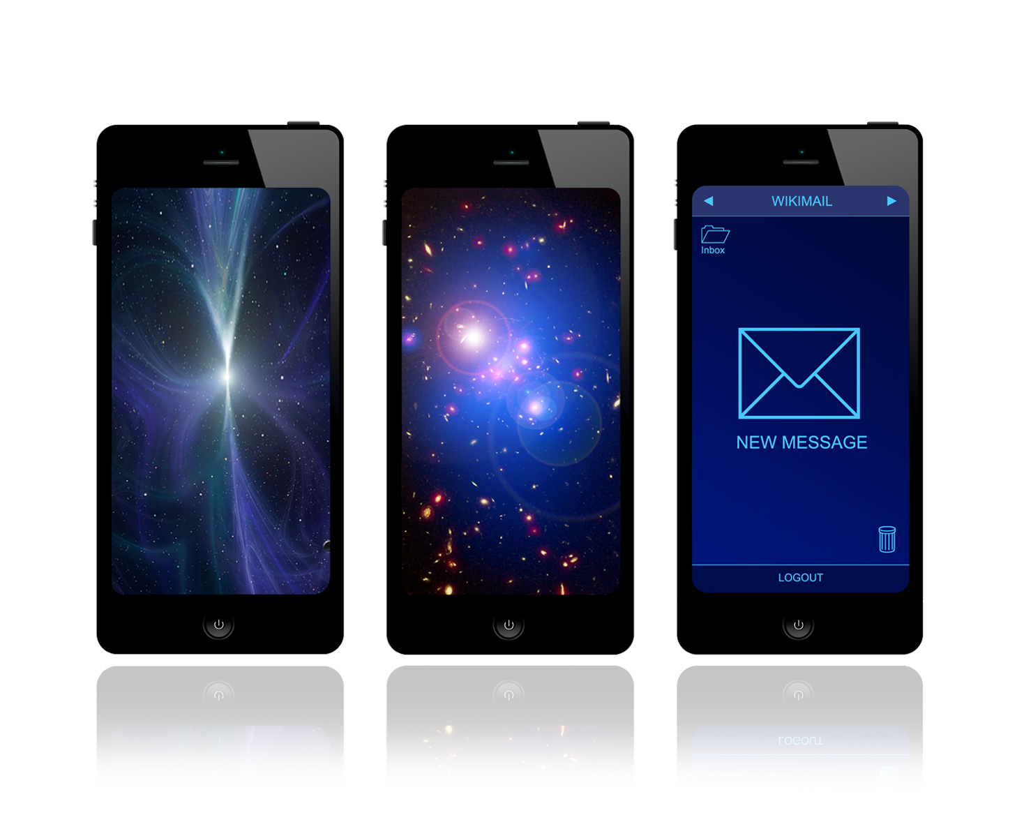 Variations on a generic cellphone design. Educational purpose: to illustrate terms such as mobile phone, wireless technology, digital communication, desktop image etc. Artwork by SimonKirby; certain graphic elements include images available on Wikimedia Commons (see below). This image was created for Wikimedia Commons and is licensed under cc-by-sa 2.0. Author agrees that Commons is not censored and that international Wikimedia projects have the right to use these images. Graphic elements derived from Commons: File:Artist's concept of PSR B1257+12 system.jpg (public domain) File:Galaxy cluster IDCS J1426.jpg (cc-by sa 4.0 unported license) In accordance with cc-by-sa 4.0 unported license, the original source of the above-mentioned image is given as: The source image has been modified to suit the purposes of this illustration. This file, which was originally posted to was reviewed on 10 October 2017 by the administrator or reviewer Dyolf77, who confirmed that it was available there under the stated license on that date.